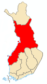 Historical province of Ostrobothnia